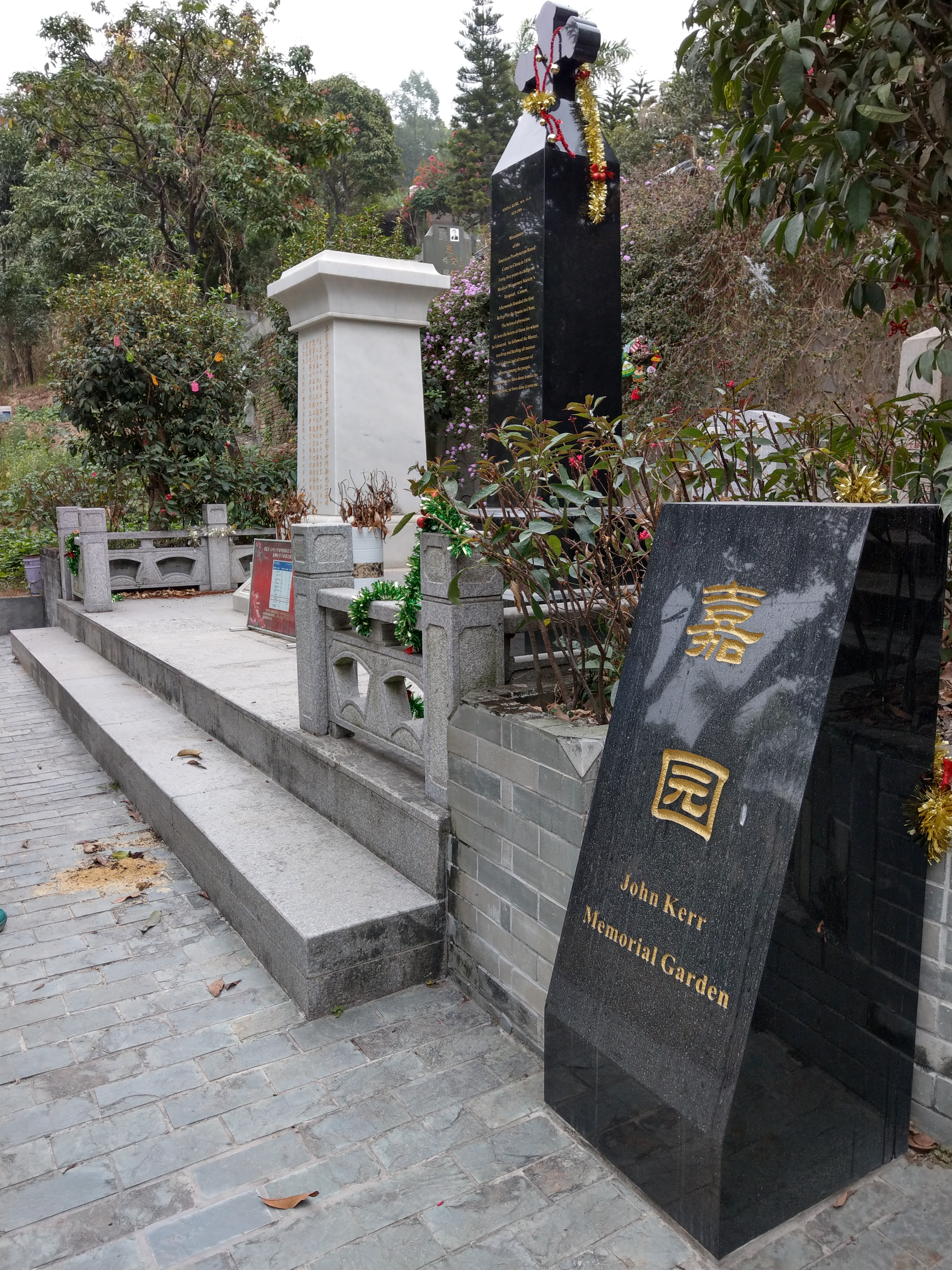 The grave of Dr. John Glasgow Kerr was originally located in the Mission Cemetery outside the East Gate of City of Canton (Guangzhou). During 1950's, the cemetery was removed for the purpose of town development. The current memorial garden of Dr. J. Kerr was built in 2013~14.